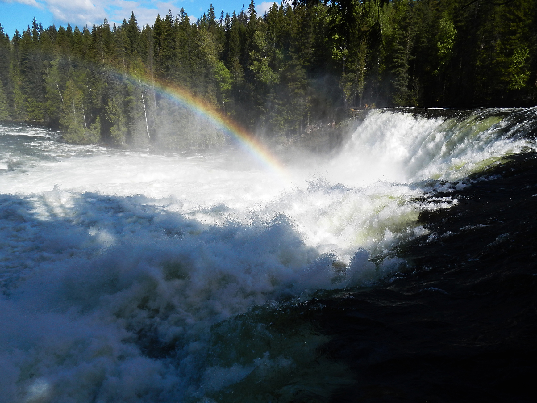 Photo by Roland Neave, editor of Dawson Falls article. From personal Wells Gray Park collection.